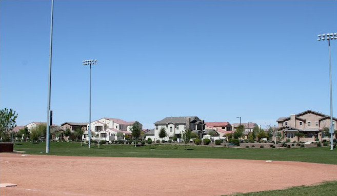 A sports ground in Marley Park, Surprise, Arizona, USA.